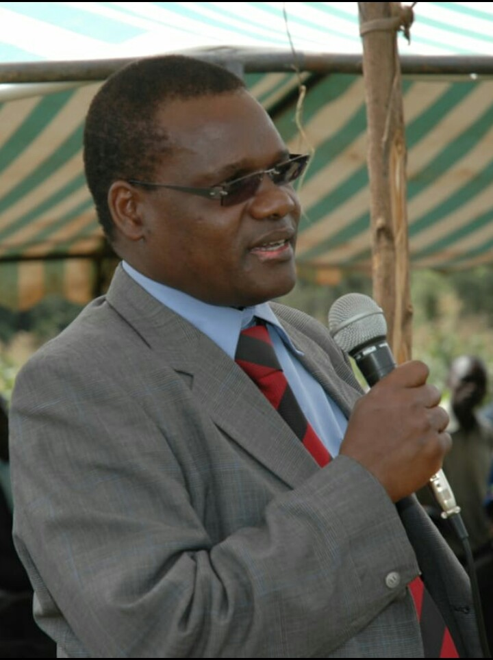 A picture of Charles Onyancha addressing a function